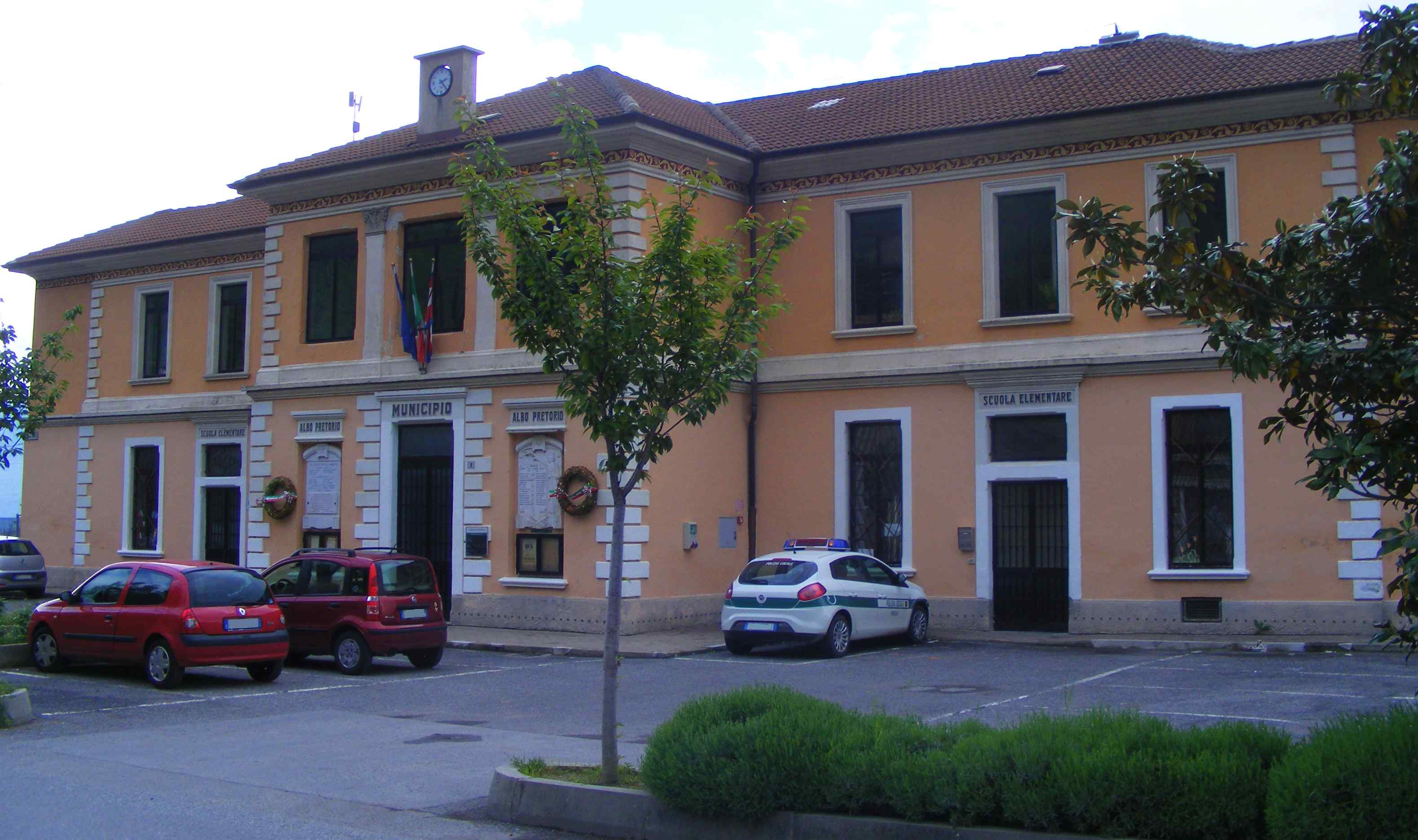 Bruzolo (TO, Italy): town hall